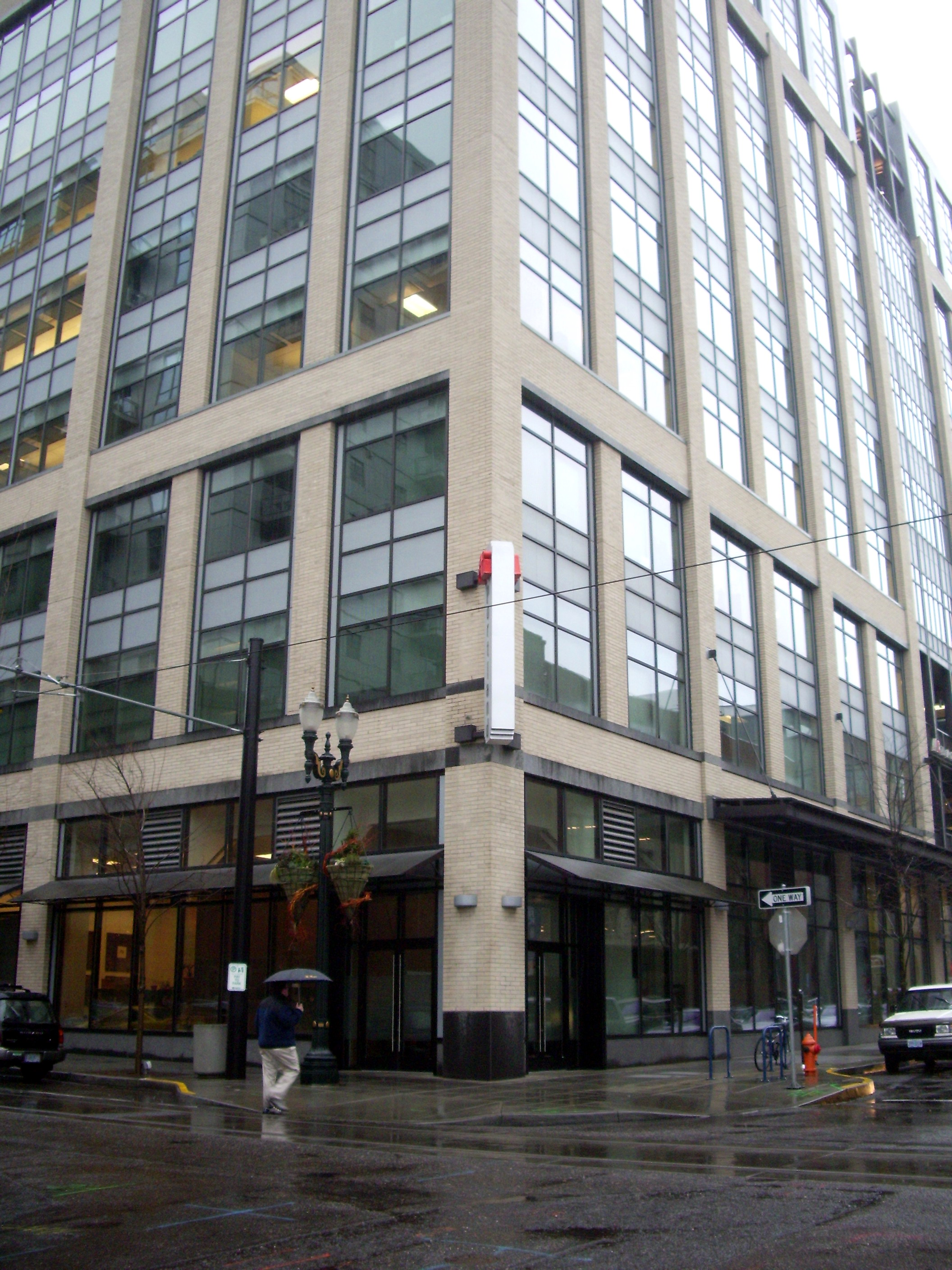 Art Institute of Portland as seen from northeast corner